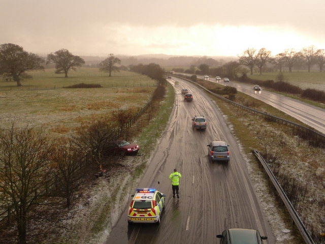 Lytchett Minster: spin-off on the A35 Not ten minutes ago it was a sunny day a couple of miles south. Now, sleet covers the roads in what appeared to be a very localised flurry of sleet – only a mile or two east it was definitely rain and the roads were not hazardous at all. The sudden icy conditions seem to have caused a few incidents, as a number of ambulances and police cars were going around with blue lights flashing and sirens on. Here, someone has slid off the road and the police have just this second arrived.